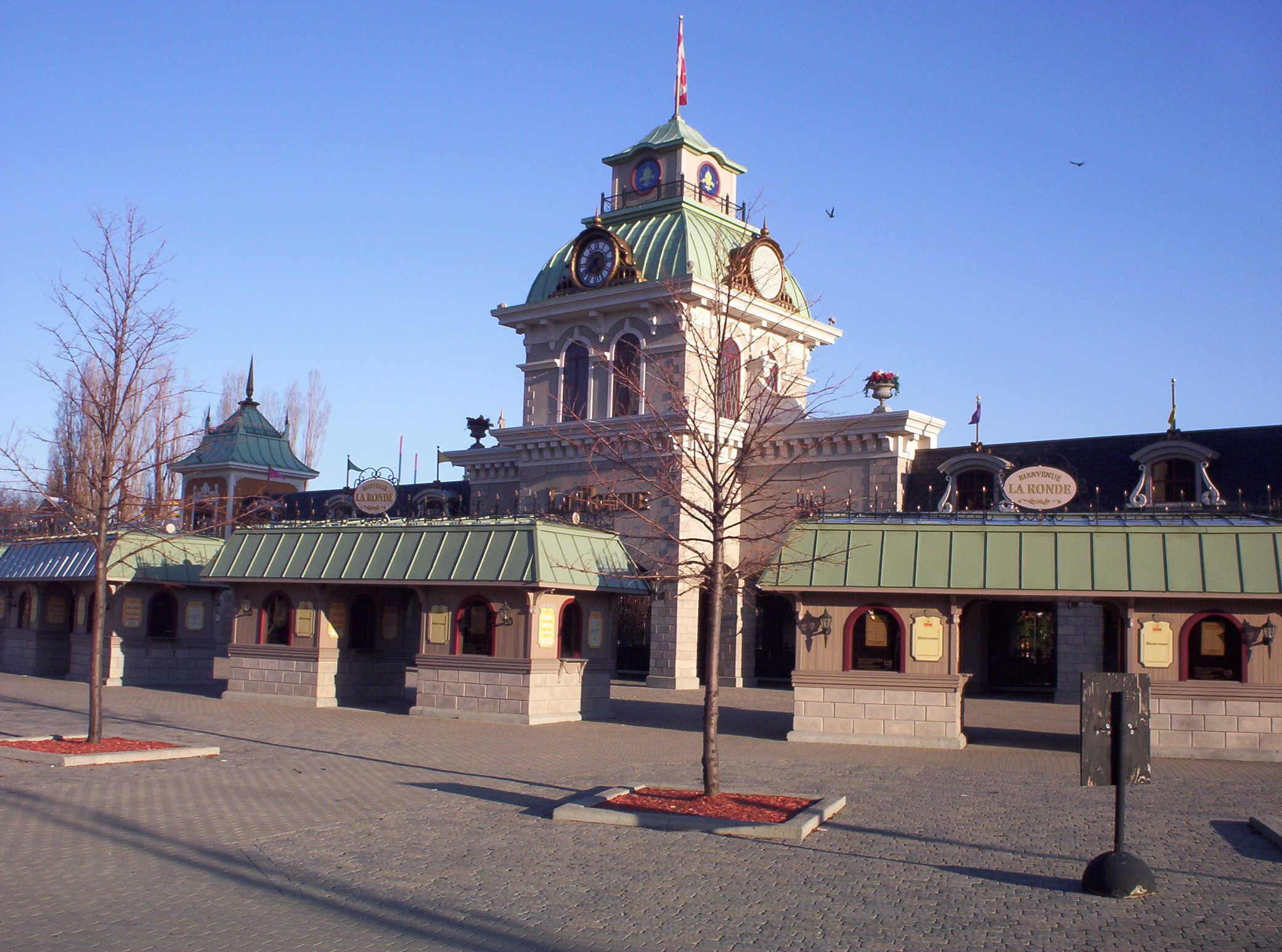 Summary: Entrance gate of "La Ronde" amusement park in Montreal, Quebec Author: Colocho Date: April 26th, 2006